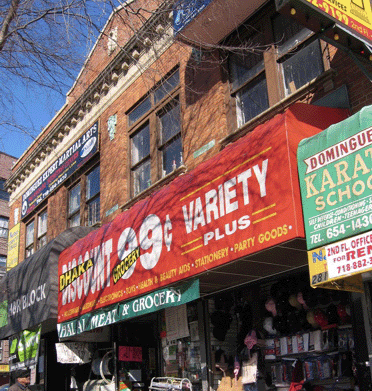 East 204th Street in Norwood, Bronx, New York. Picture taken by Satyadasa.